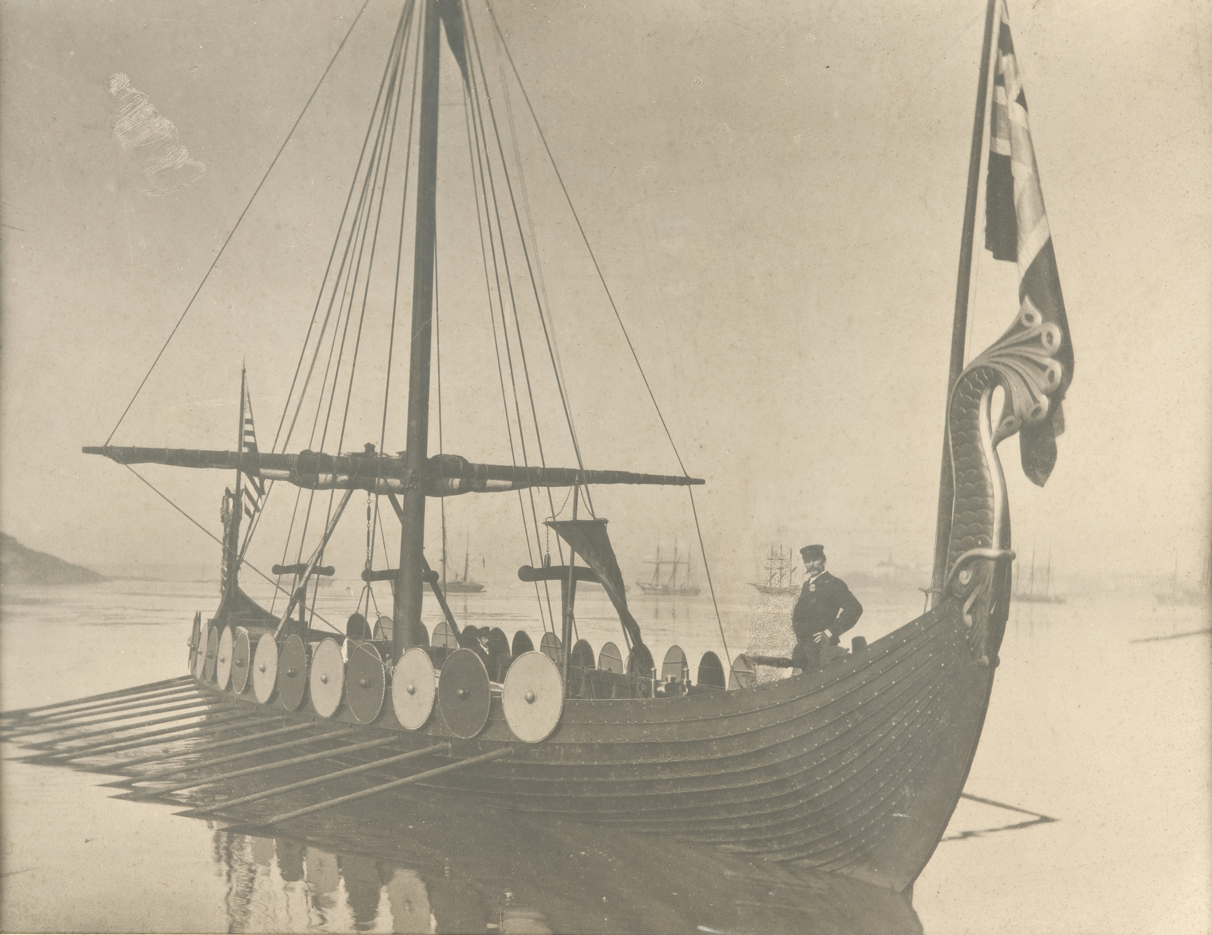 Viking, an exact replica of the Gokstad Ship, recovered from Gokstadhaugen, Norway, 1880.